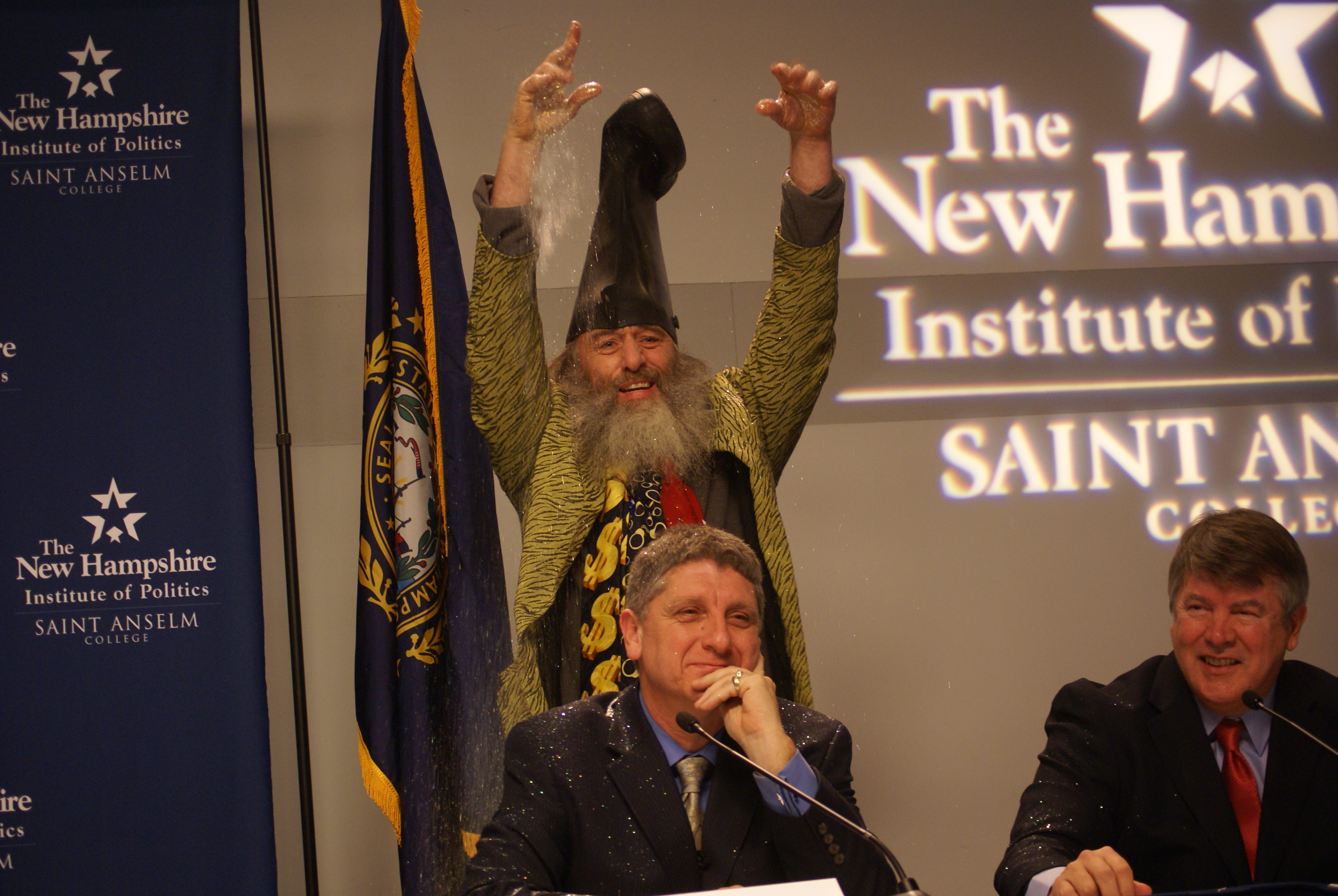 Vermin Supreme glitterbombs Randall Terry during the New Hampshire Institute of Politics' "lesser known candidates forum" at St. Anselm's College, Manchester, New Hampshire, USA